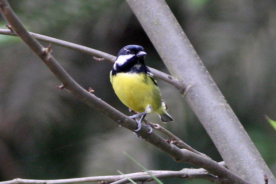 Journey to Wawu Shan, Sichuan